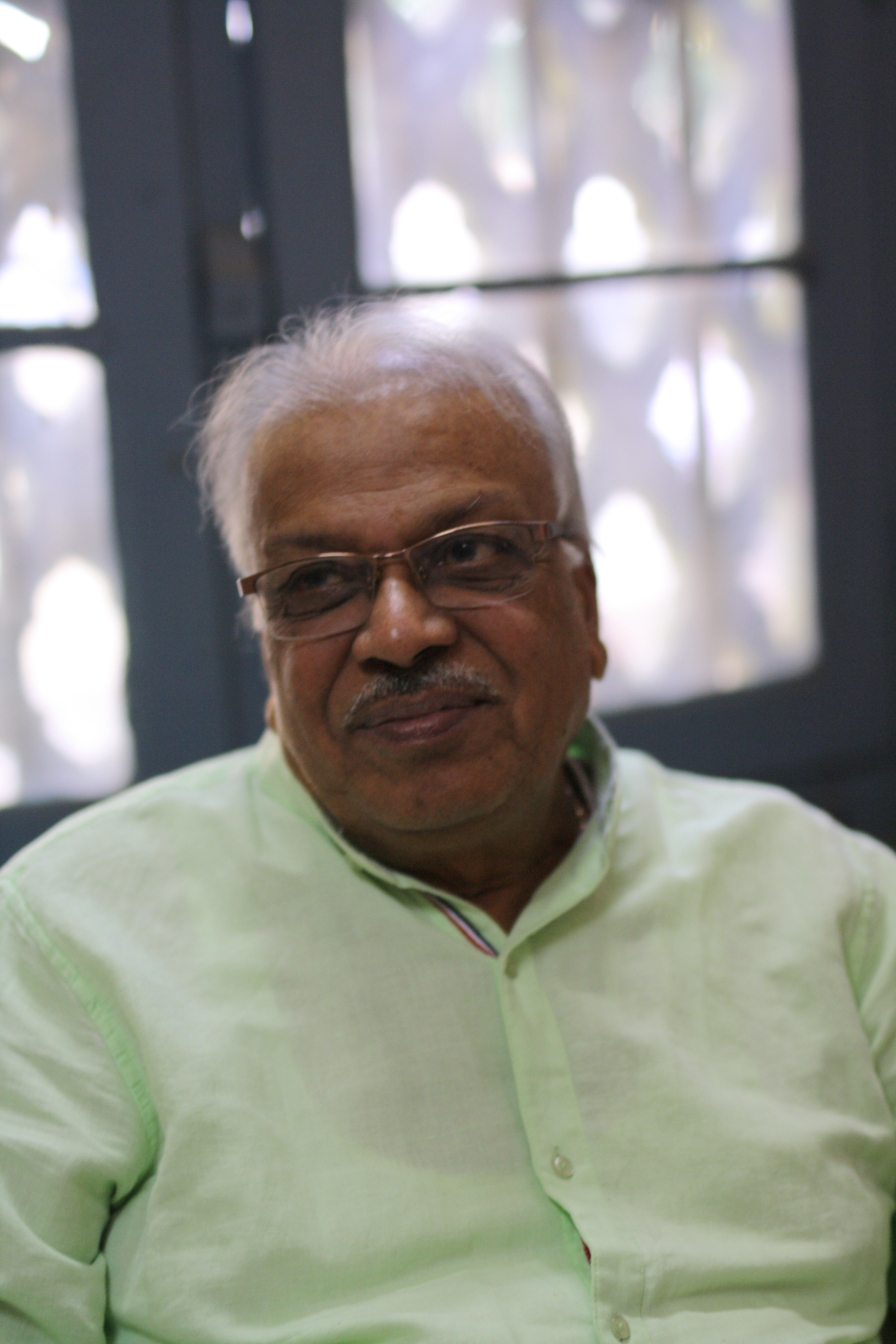 Kannada writer, poet H S Venkatesha Murthy